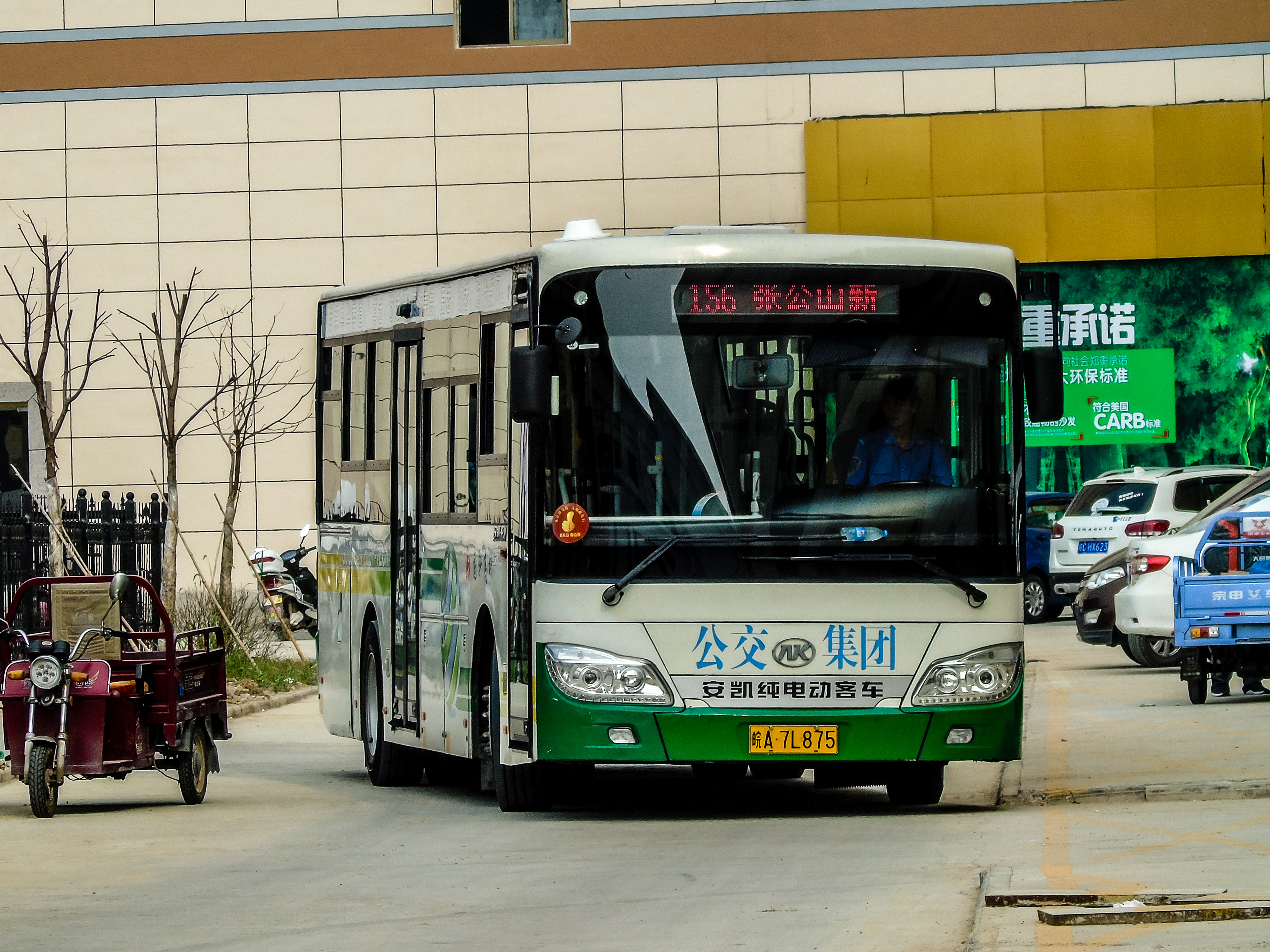 Bengbu Bus No.156 3